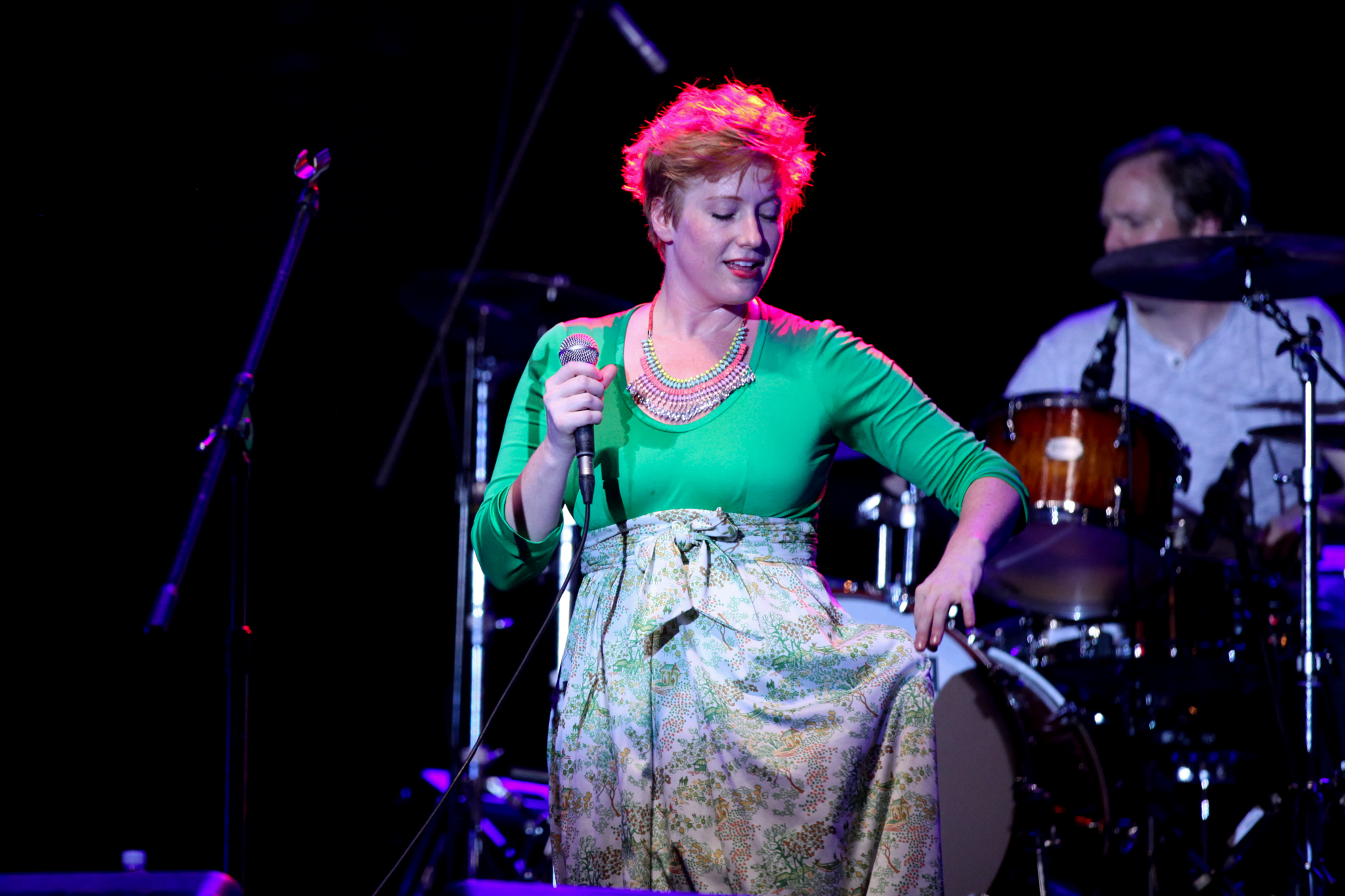 Sixpence None the Richer performing at the Java Rockin'Land in Ancol Dreamland's Carnaval Beach in Jakarta, Indonesia, in June 2013. Lead vocalist Leigh Nash is shown in the center.